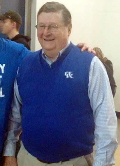 Former Kentucky Wildcats men's basketball coach Joe B. Hall in 2016